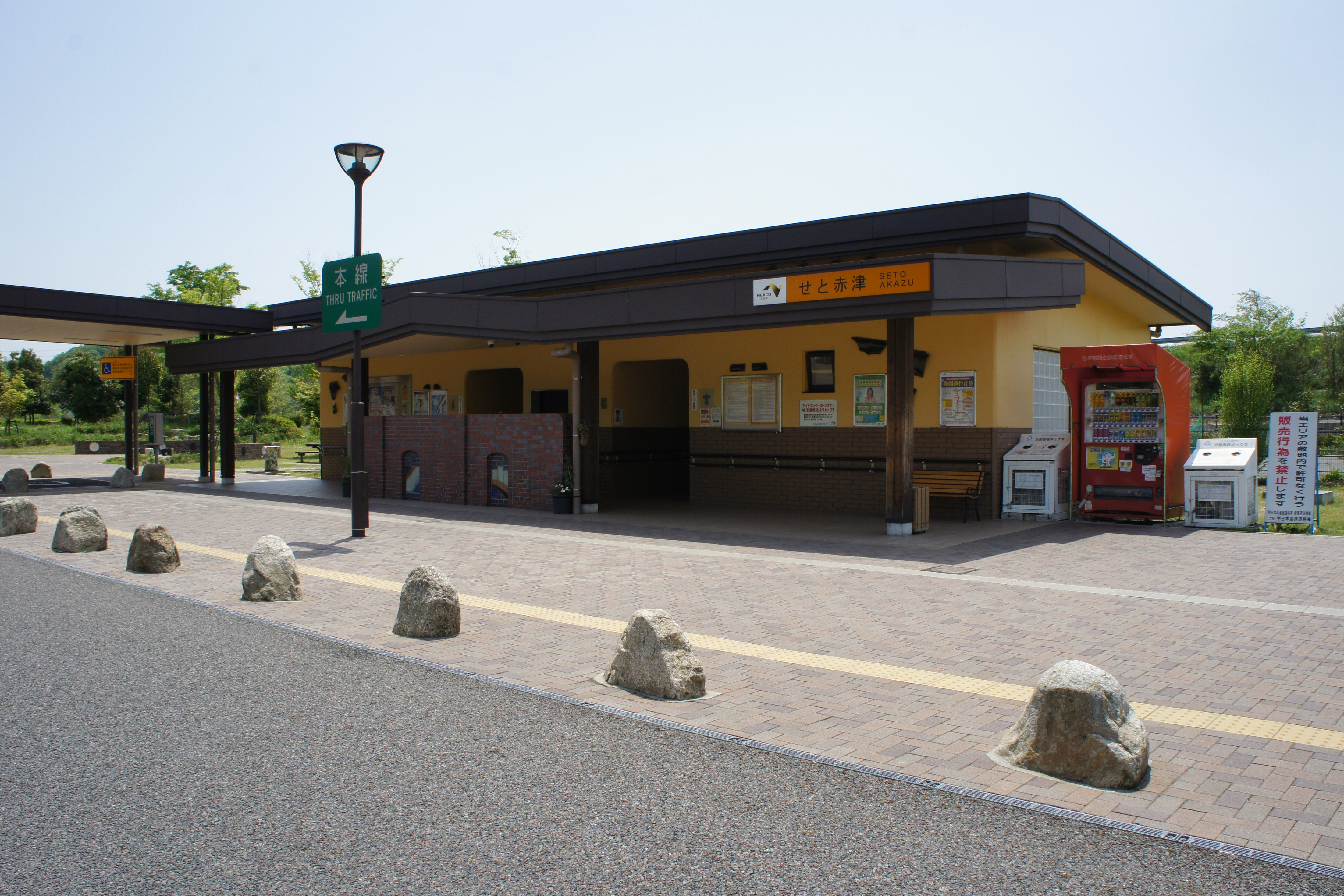 Seto-Akazu Parking Area, Seto, Aichi, Japan